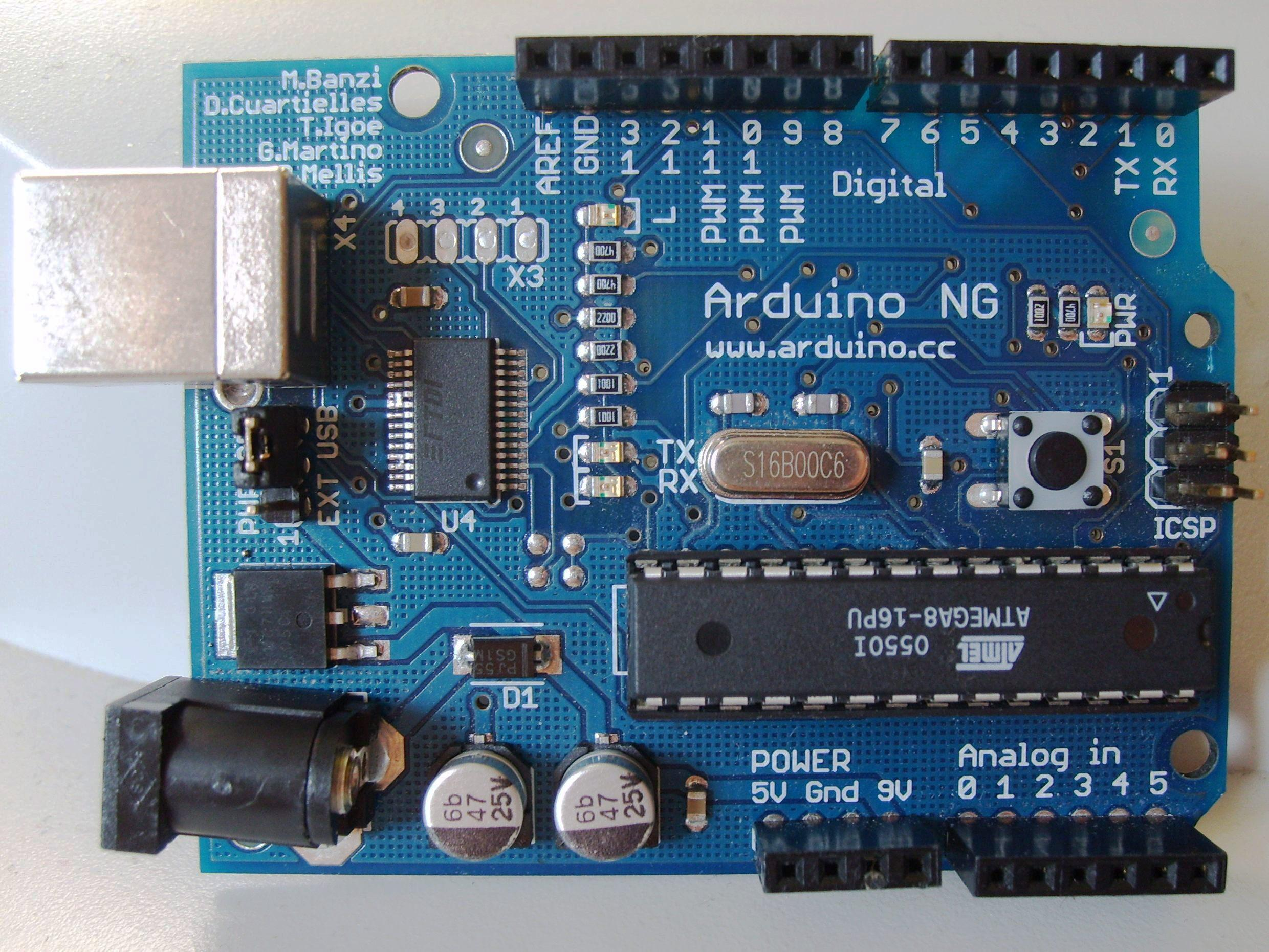 The Arduino NG board from arduino.cc. A circuit board with an Atmel ATmega8 microcontroller.